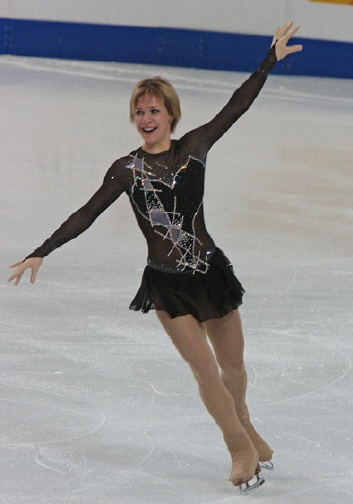 Alena LEONOVA (RUS) at the 2009 European Figure Skating Championships